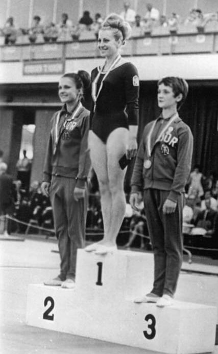 Věra Čáslavská (middle, gold), with Erika Zuchold (left, silver) and Karin Janz (right, bronze) at the 1967 European Championships in Amsterdam.